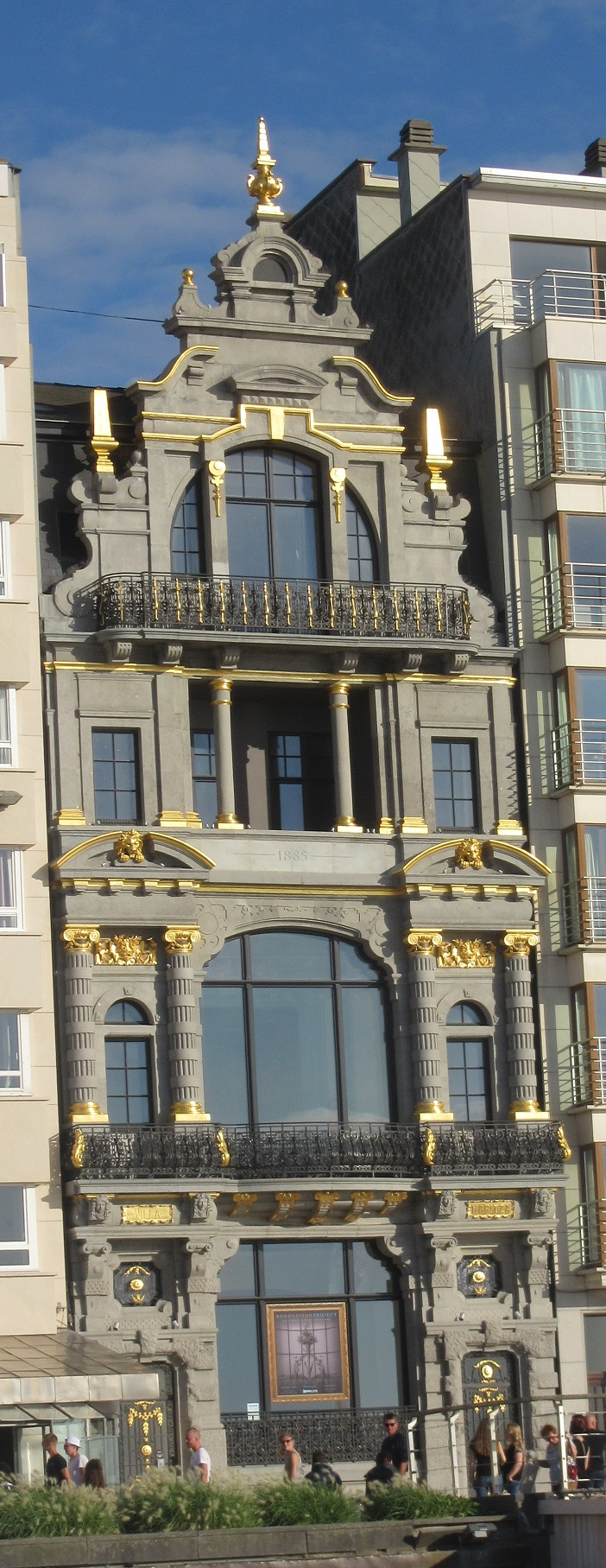 Villa Maritza in Ostend